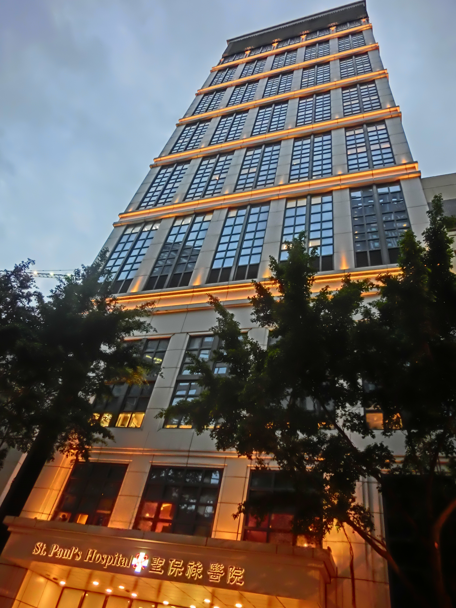 銅鑼灣 銅鑼灣道, Tung Lo Wan Road, Causeway Bay, Hong Kong